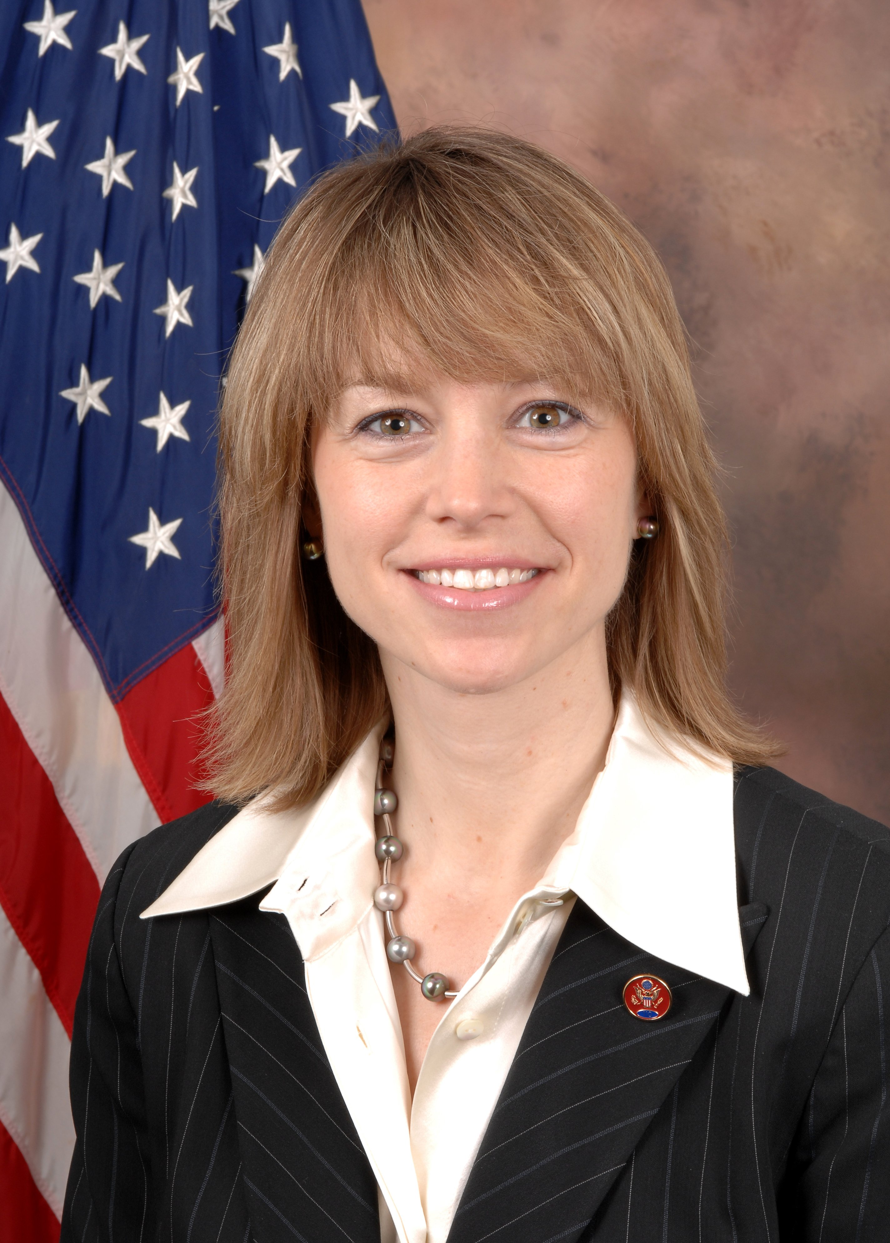 Stephanie Herseth Sandlin, member of the United States House of Representatives.